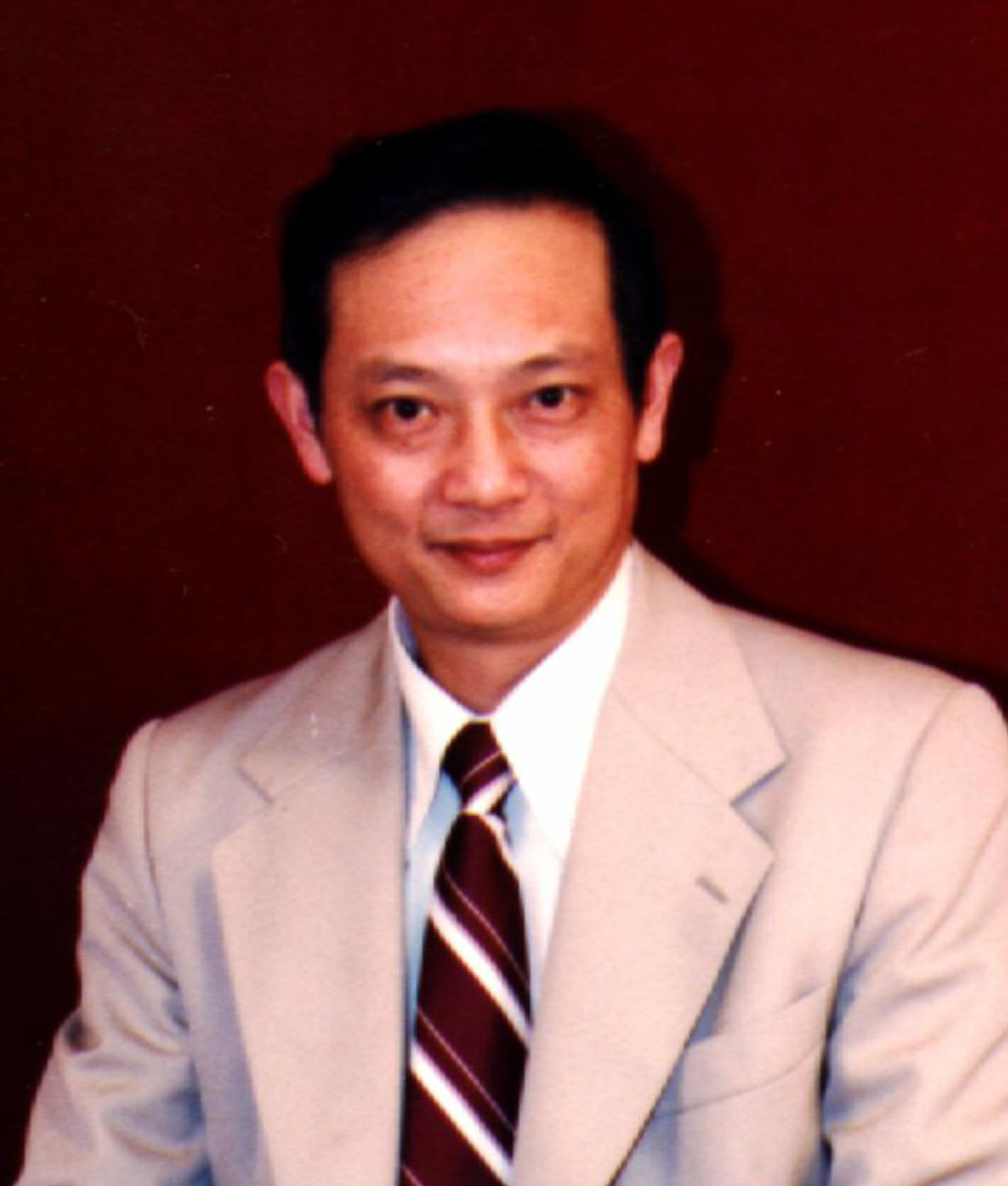 Prof. Dr. Kuo-Chen Chou